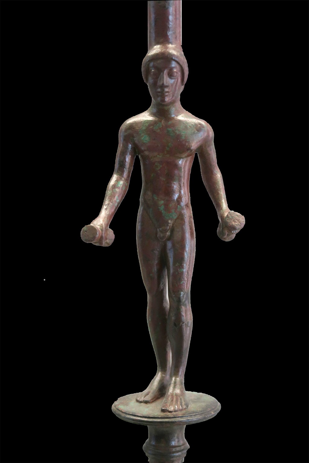 Kouros. Incense burner. Etruria. 5th century AEC. Bronze. MBA Lyon X 254-17